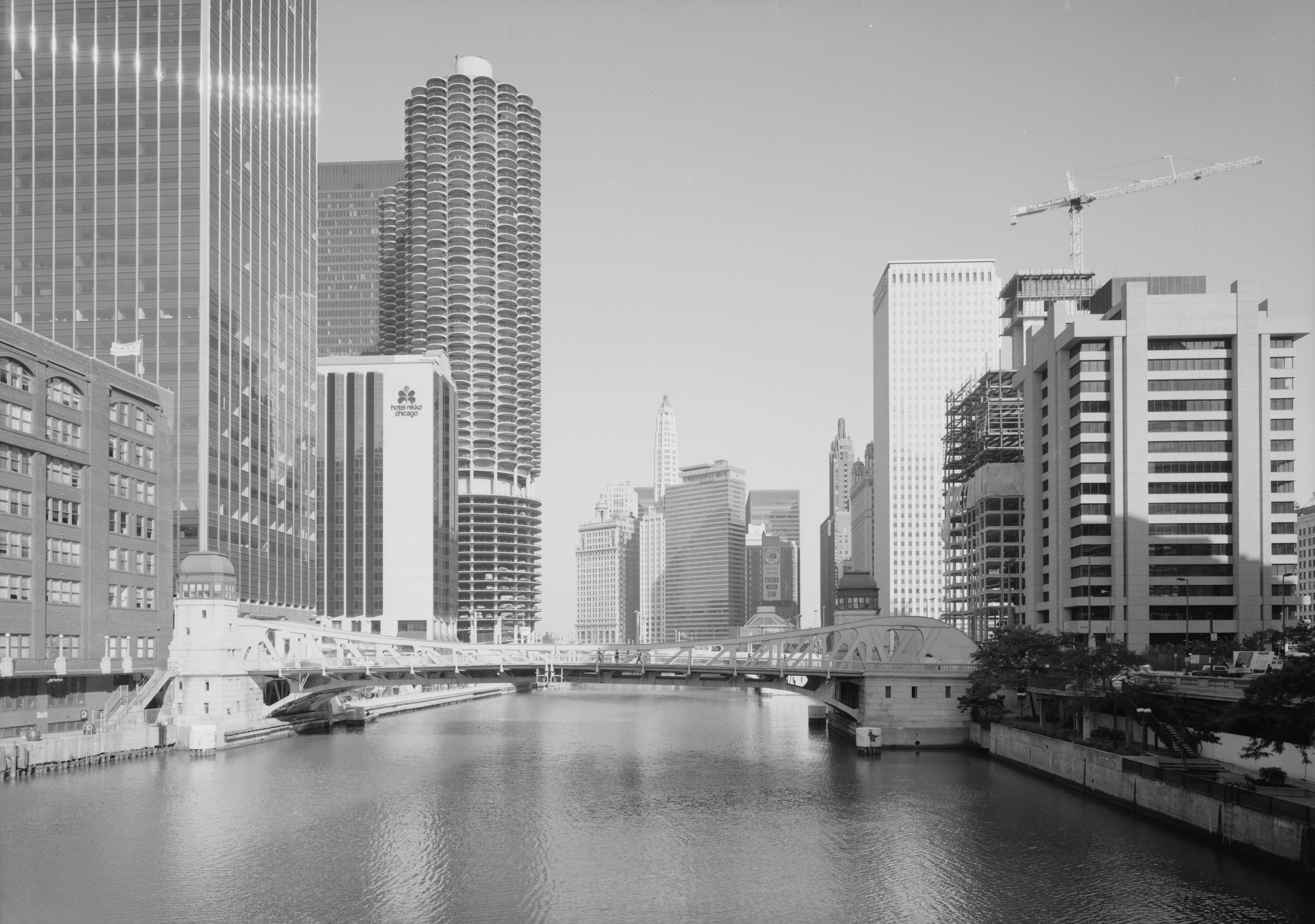 Chicago River Bascule Bridge, Clark Street, spanning Chicago River at Clarke Street, Chicago, Cook County, IL. Distant view of bridge looking northeast.